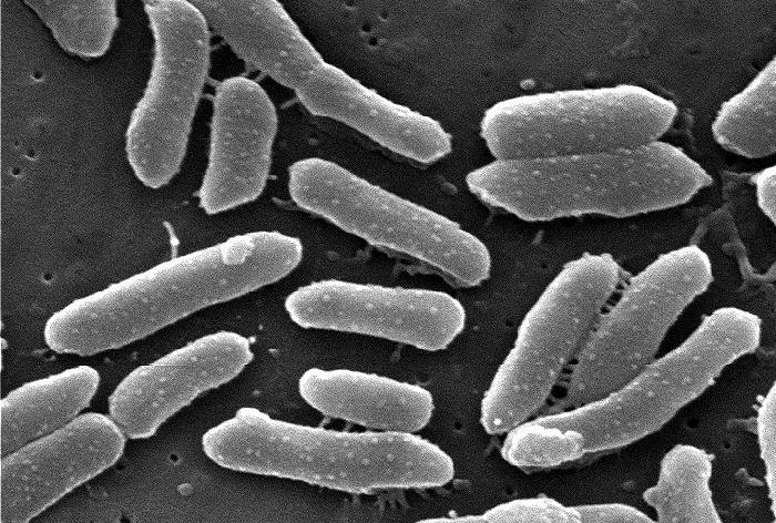 Scanning electron micrograph of Providencia alcalifaciens